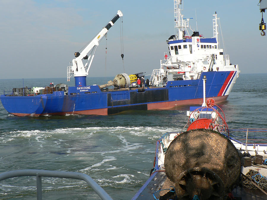 The buoy tender Gascogne during its sea trials.